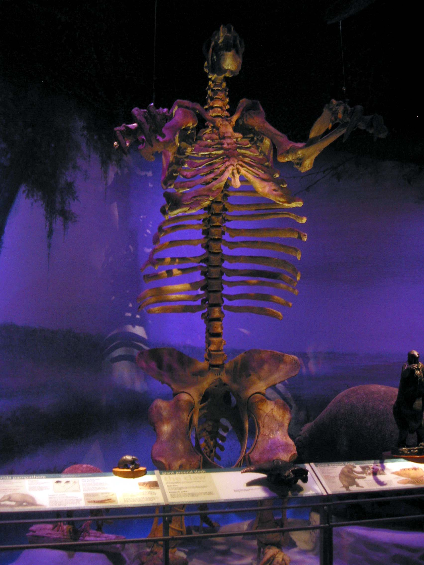 A giant ground sloth skeleton from the Florida Fossil Hall, Florida Museum of Natural History, Powell Hall.